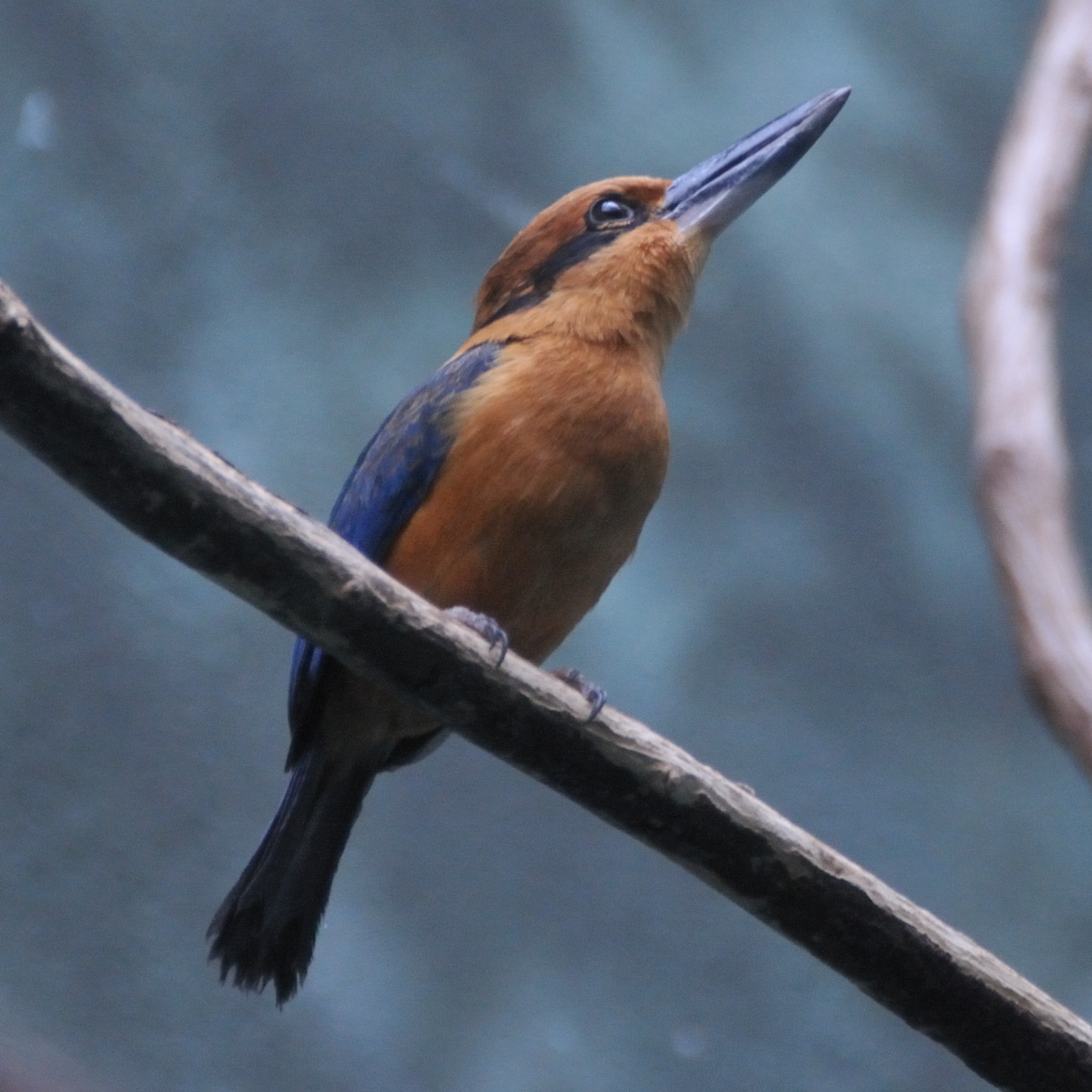 A male Micronesian Kingfisher at Bronx Zoo, USA. It is the nominate subspecies T. c. cinnamominus